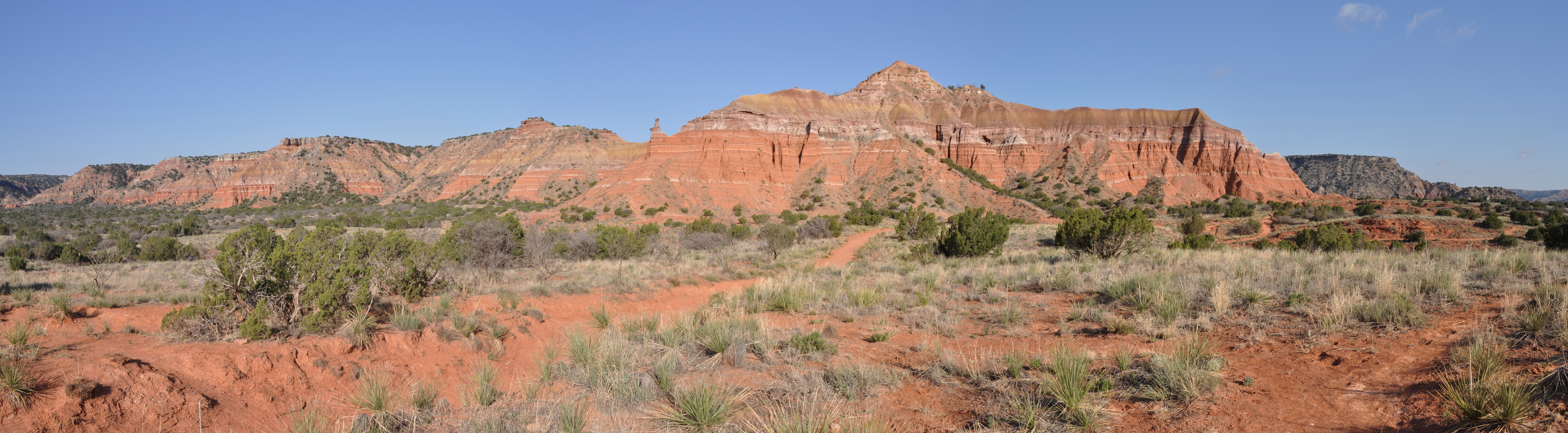 Capitol Peak along the Lighthouse Trail in Palo Duro Canyon State Park, Texas